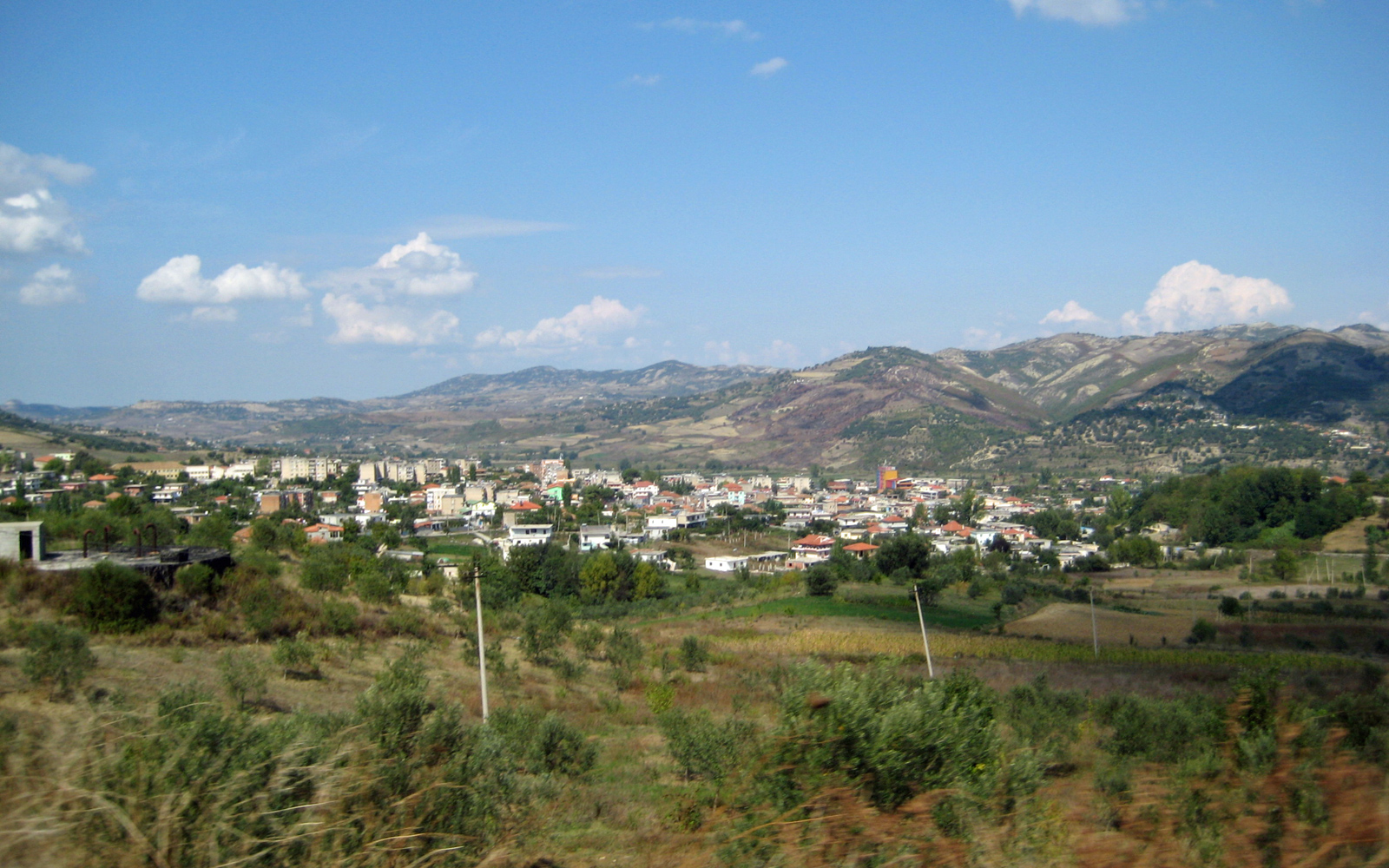 City of Ballsh, Albania, as seen from South